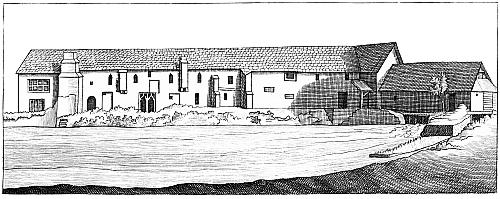 This woodcut is taken from a sketch that Thomas Hearne made of Osney Abbey and published in the Rextus Roffensis in 1720; reproduced in a book from 1772.